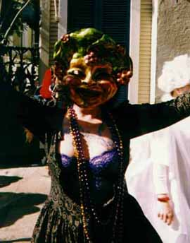 Costumed street reveler, French Quarter, Mardi Gras Day, 1997. Photo by Infrogmation Previously uploaded by me to Wikipedia on 14 February, 2004.